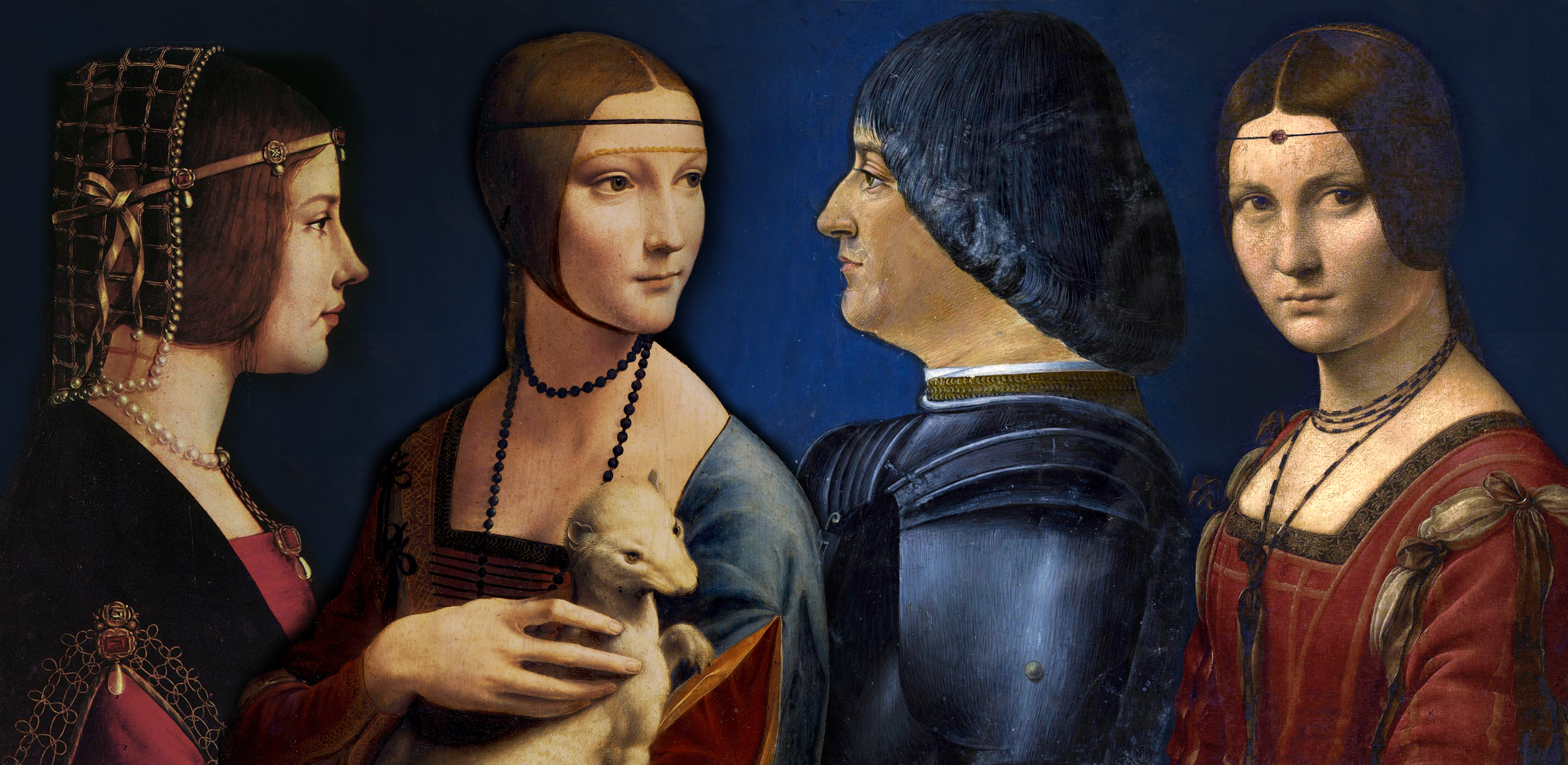 Ludovico Moro with wife and mistresses